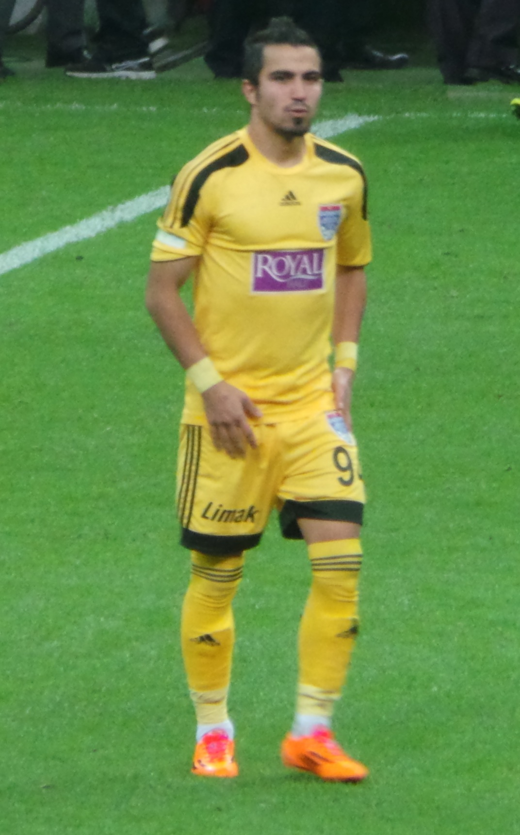 İsa Akgöl